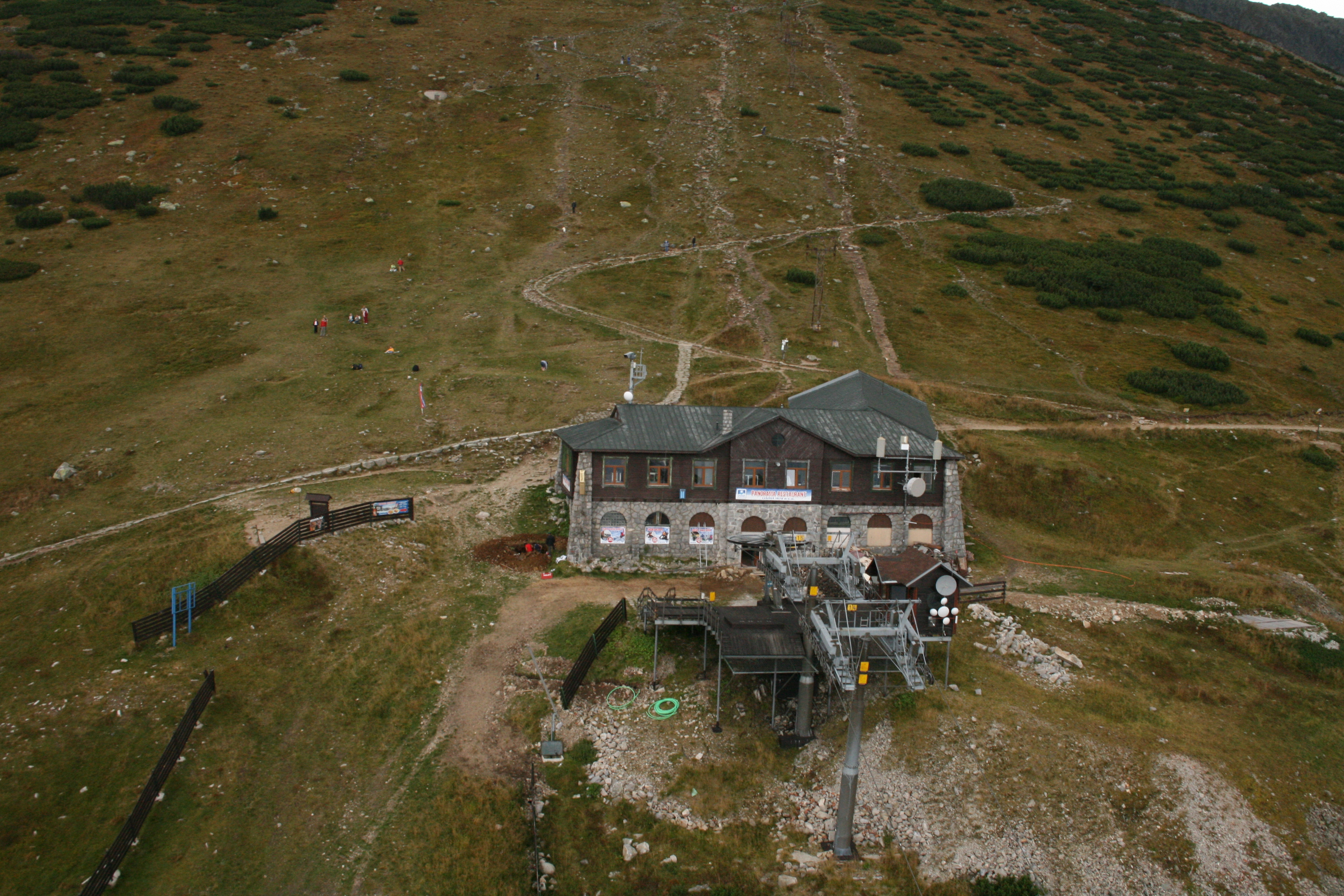 Station Luková in Jasná ski resort. Building served as middle station to transfer between chairlifts Koliesko–Luková and Luková–Chopok. By reconstruction of 1st chairlift part of building was removed and replaced by mountain station (wooden platform in front). Several years after (after terminating of service), valley station of 2nd chairlift was rebuild to an restaurant with preserving of the former technical equipment.